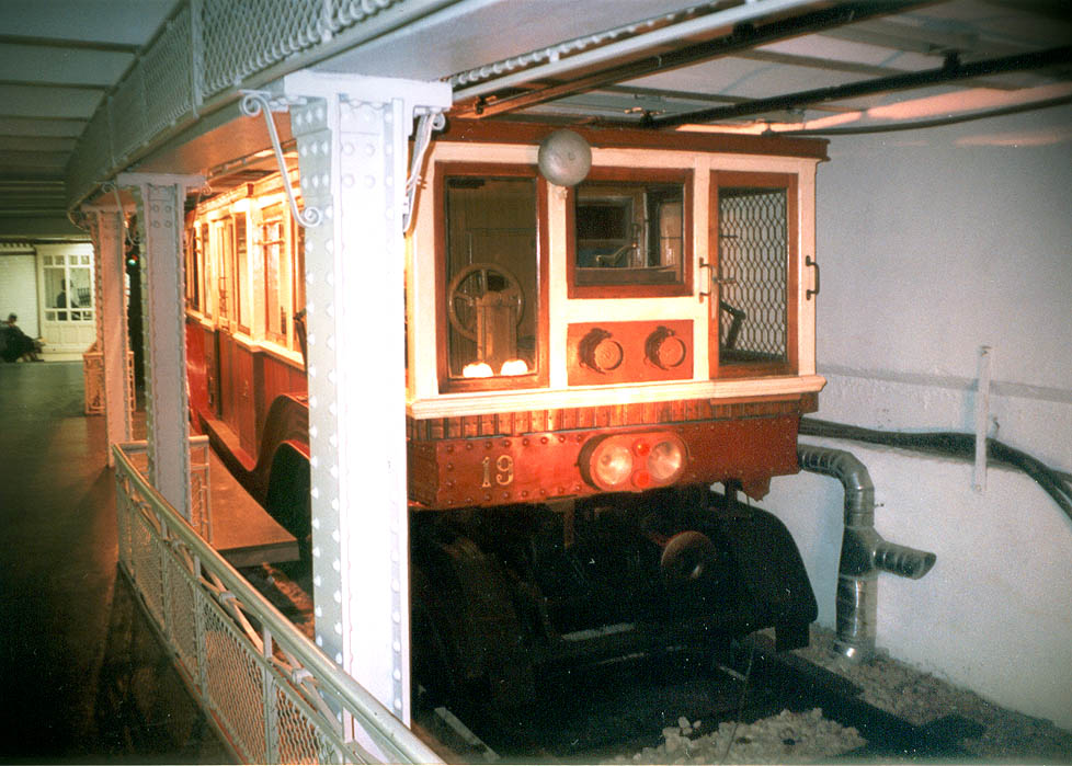 An old train at the Budapest metro museum at Deak Ferenc tér